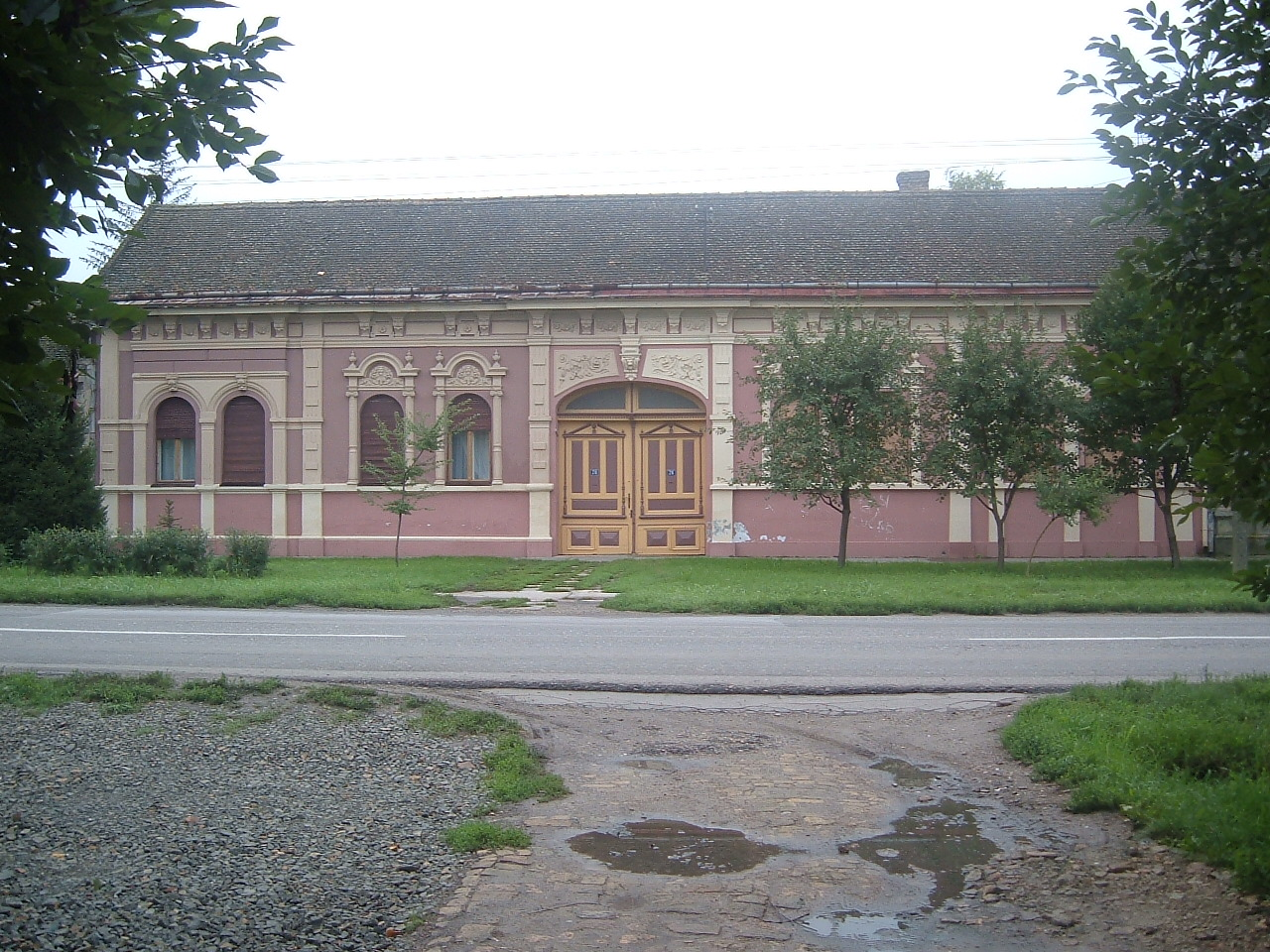 Old German house in Bački Jarak.